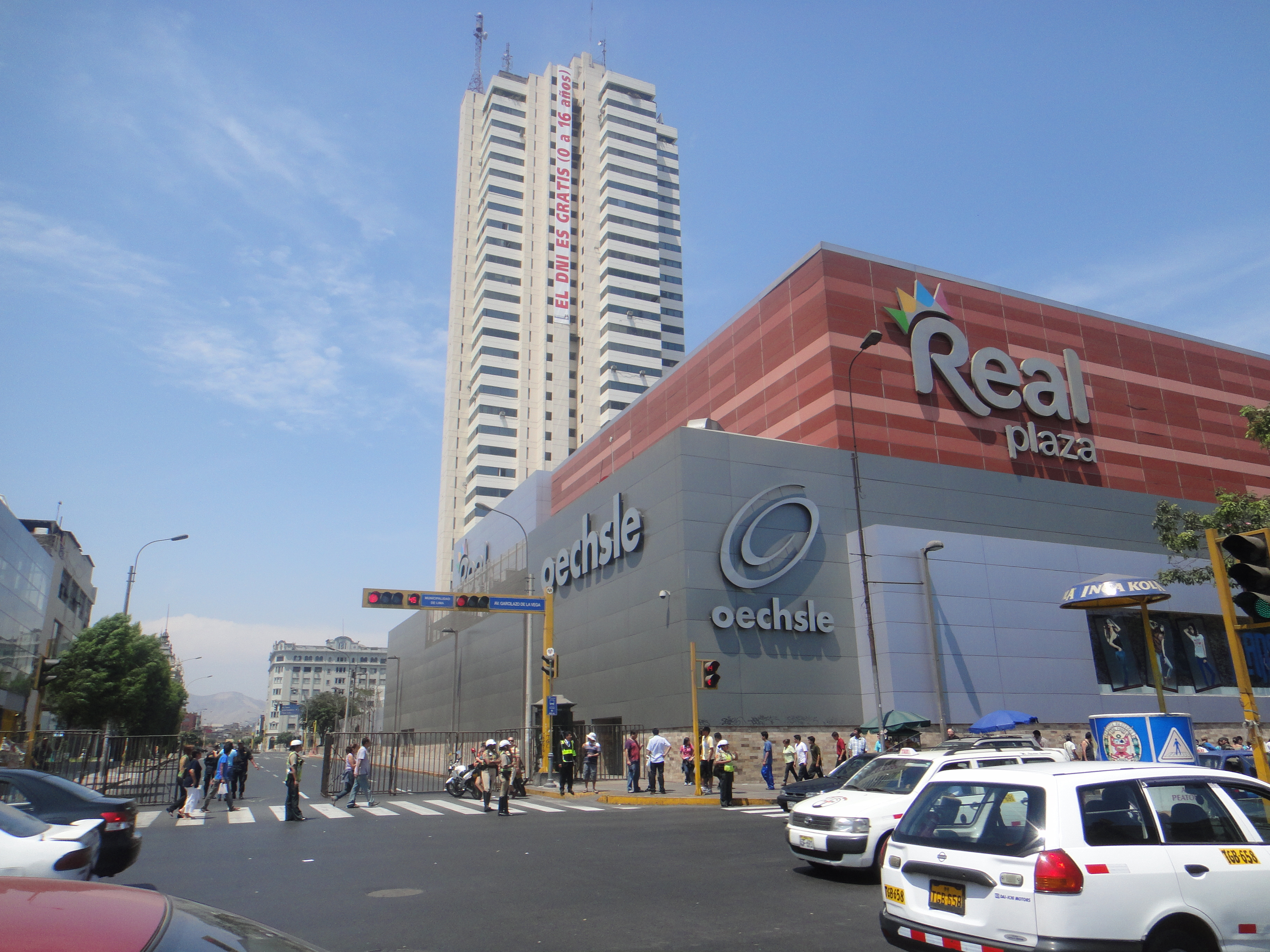 Real Plaza, mall in Lima-Peru.